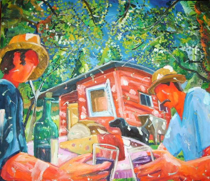 Hats at Colonia